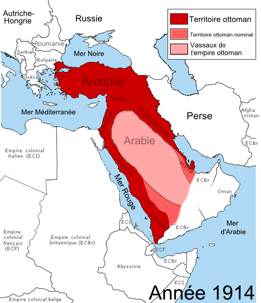 Map showing the territories of the Ottoman Empire in 1914, including nominal and vassal territories. According to the information on the map in